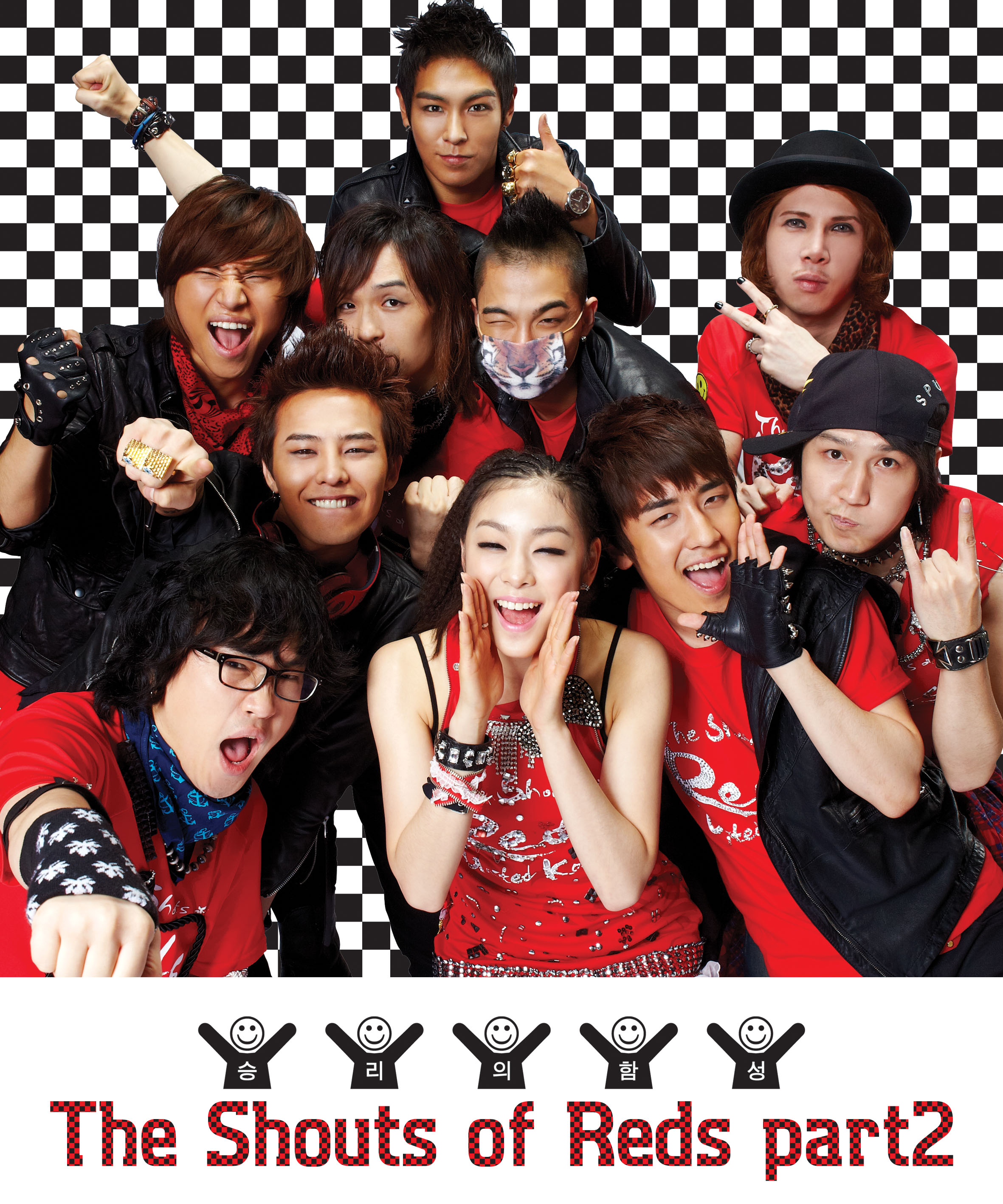 BIGBANG & KIM YUNA 2010 World Cup "The Shouts of Reds pt. 2"